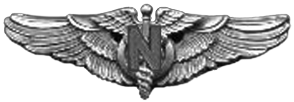 Obsolete United States Army Air Force Flight Nurse insignia